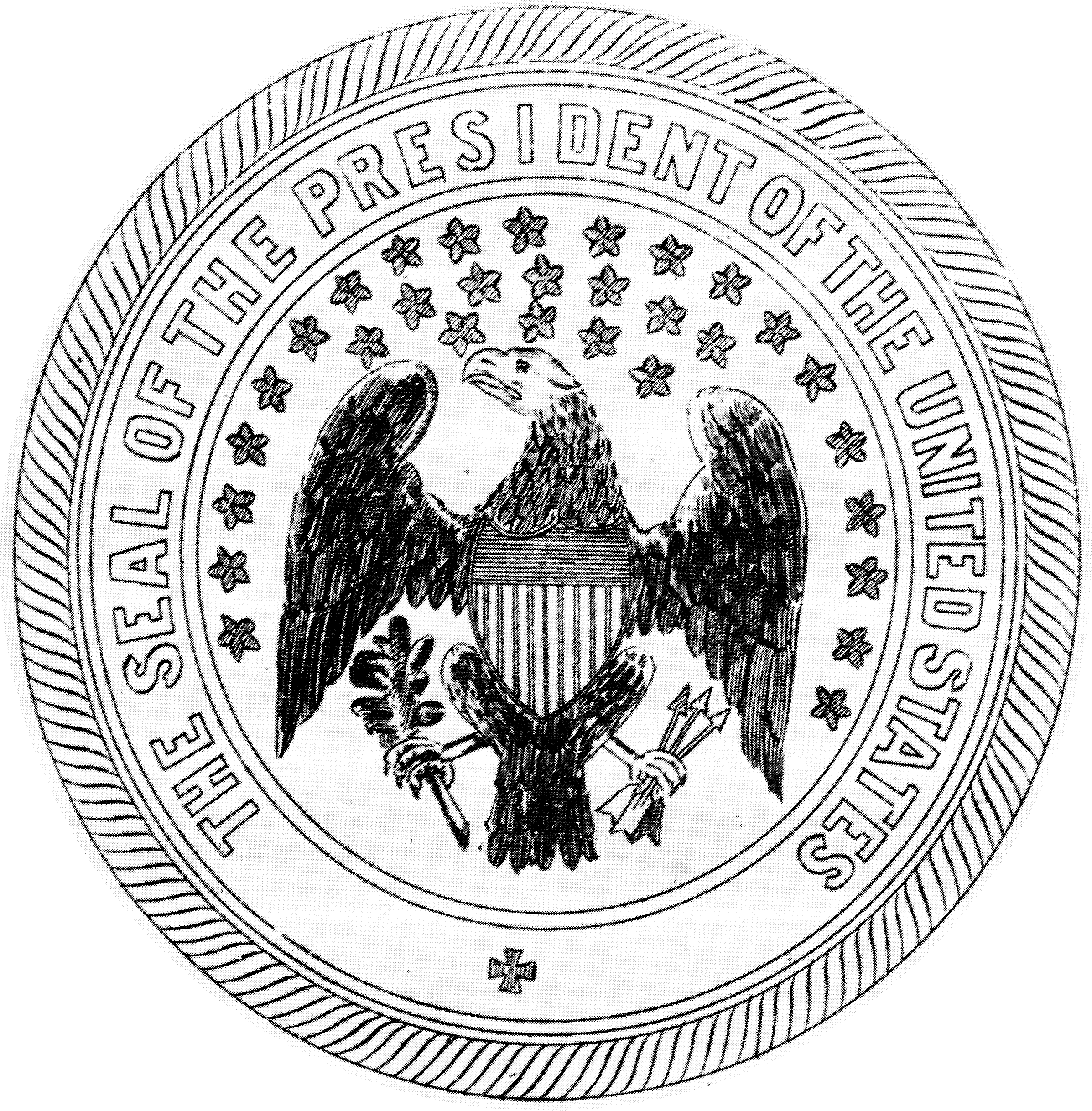 An old version of the Seal of the President of the United States, made in 1850 by engraver Edward Stabler and printed in an 1885 article in the magazine the Daily Graphic.